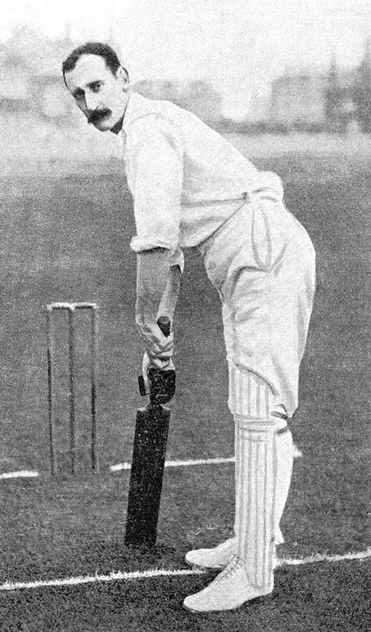 Scan of cricketer Arthur George Paul